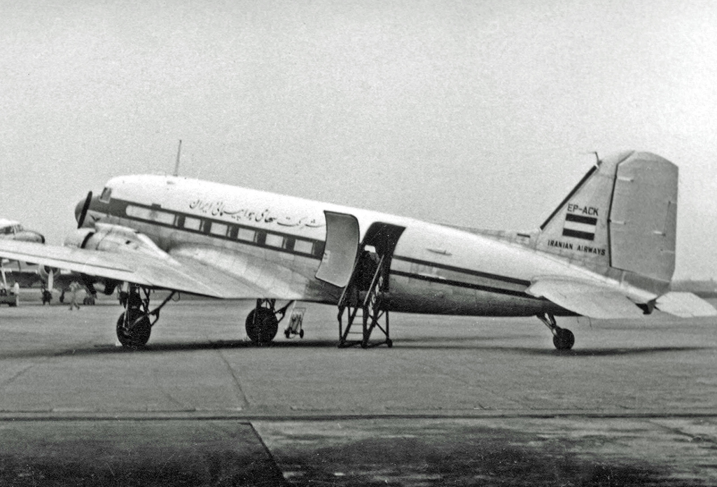 Doaglas C-47B (DC-3) of Iranian National Airways at Manchester Airport in 1954